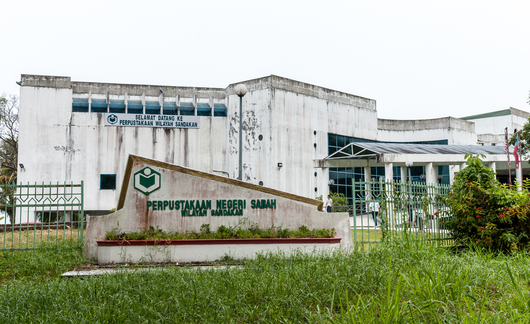 Sandakan, Sabah: Library (Perpustakaan Wilayah Sandakan)